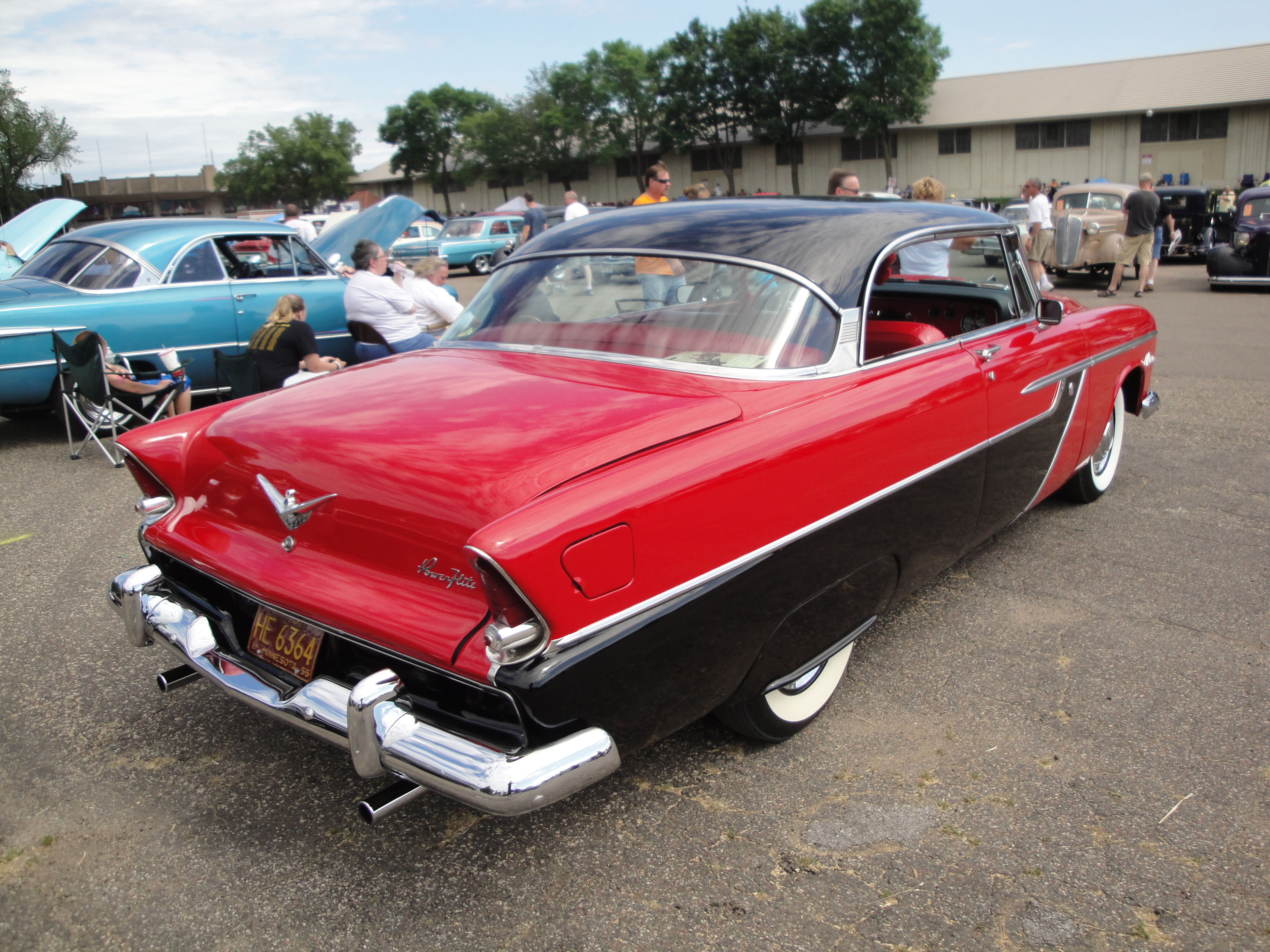 Minnesota Street Rod Association 39th Annual "Back to the Fifties" June 2012 Minnesota State Fairgrounds St. Paul MN